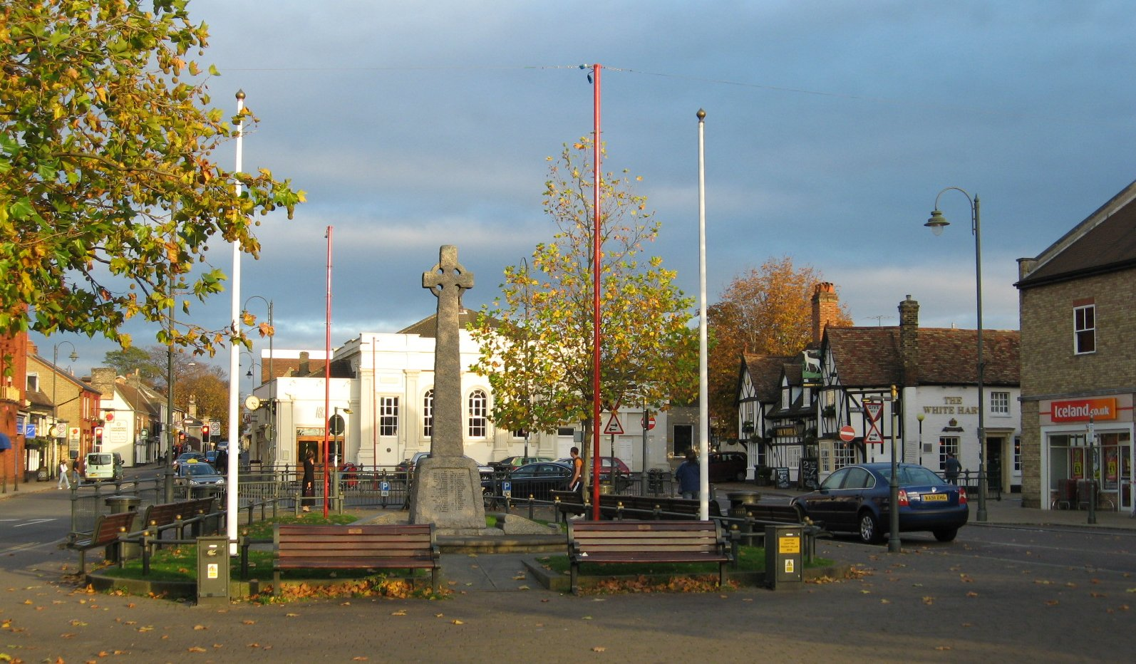 Biggleswade town centre and war memorial.